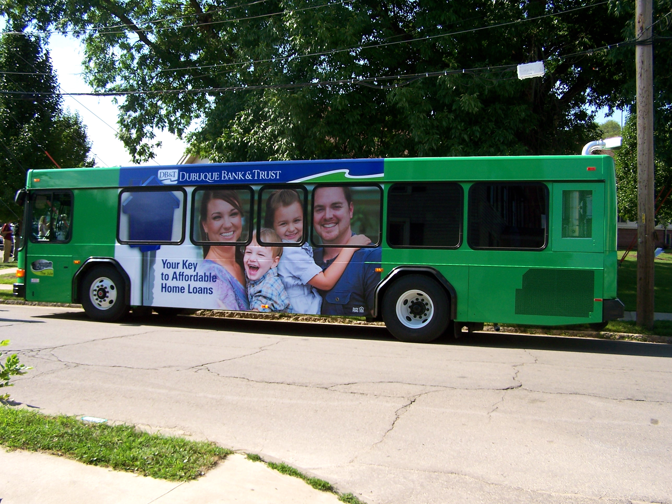 Gillig low-floor transit from the Jule